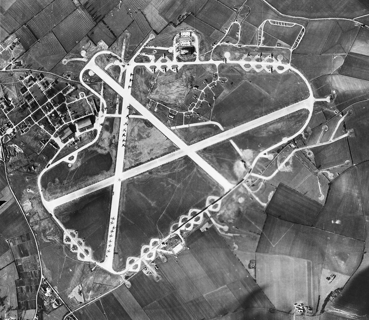 Aerial photograph of North Luffenham airfield. the technical site with two T2 hangars are at the left (west). there are three more T2 hangars and the bomb dump north of the perimeter track, 2 March 1944. There are a large number of aircraft parked on the north/south crosswind runway and on the hardstand loops around the perimeter track. Photograph taken by No. 1 Photographic Reconnaissance Unit, sortie number US/7PH/GP/LOC190. English Heritage (USAAF Photography).